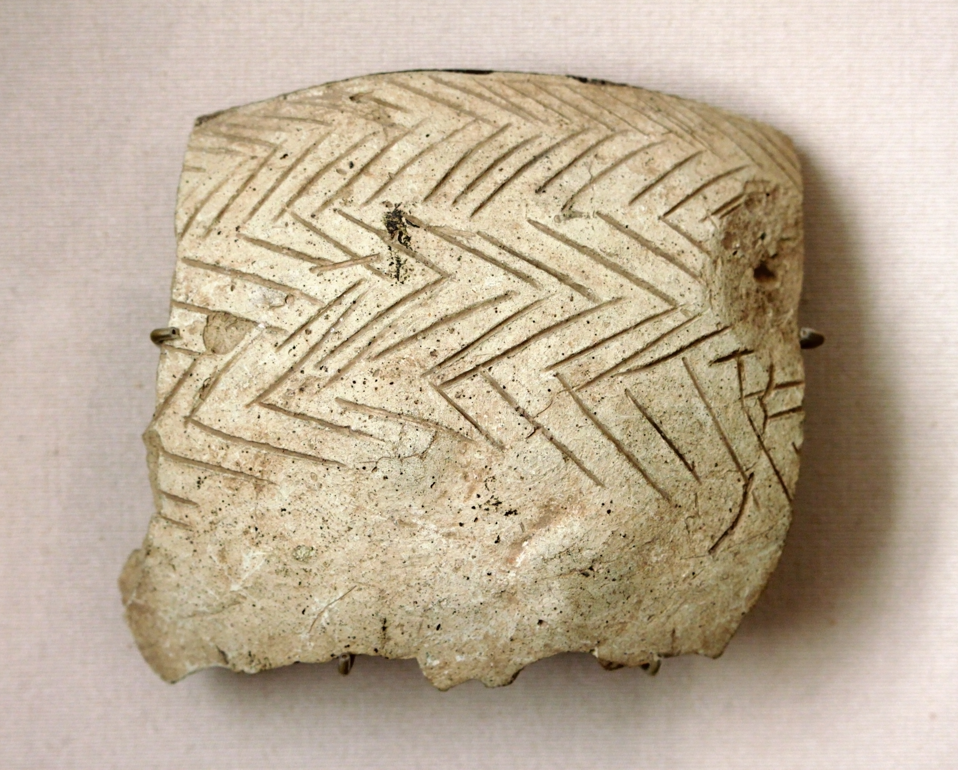 Fragment of pottery with incised decor. From Tell Hassuna, 6500 - 6000 BC. Now in the Louvre Museum ( Near Eastern Antiquities - Room 1a ).